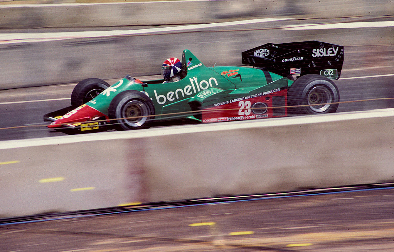 Eddie Cheever, #23 Benetton Alfa Romeo spun out after 8 laps.